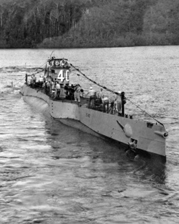 United States Navy submarine in the 1930s, probably in the Far East.